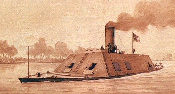 CSS Arkansas in a 1904 sepia wash drawing by R.G. Skerrett.